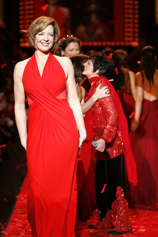 Allison Janney modeling at The Heart Truth Fashion Show 2008